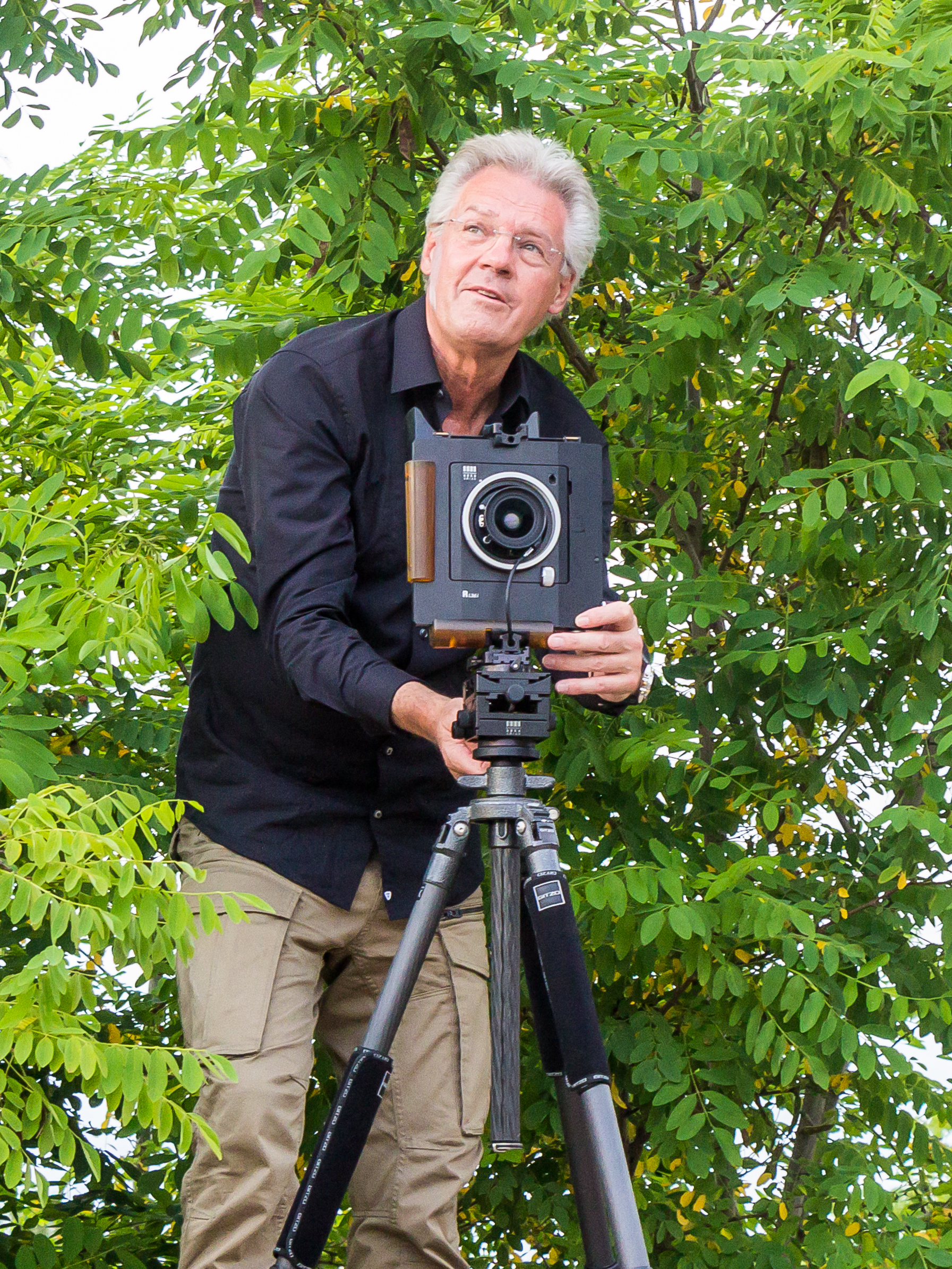 Alfred Seiland preparing a photography at Pont du Gard